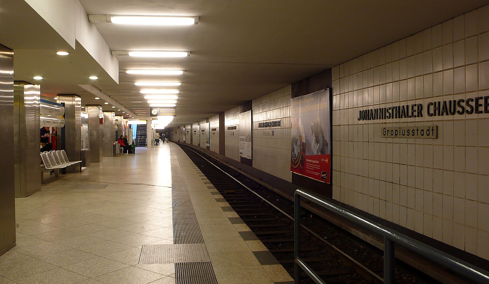 Johannisthalerchaussee subway Berlin